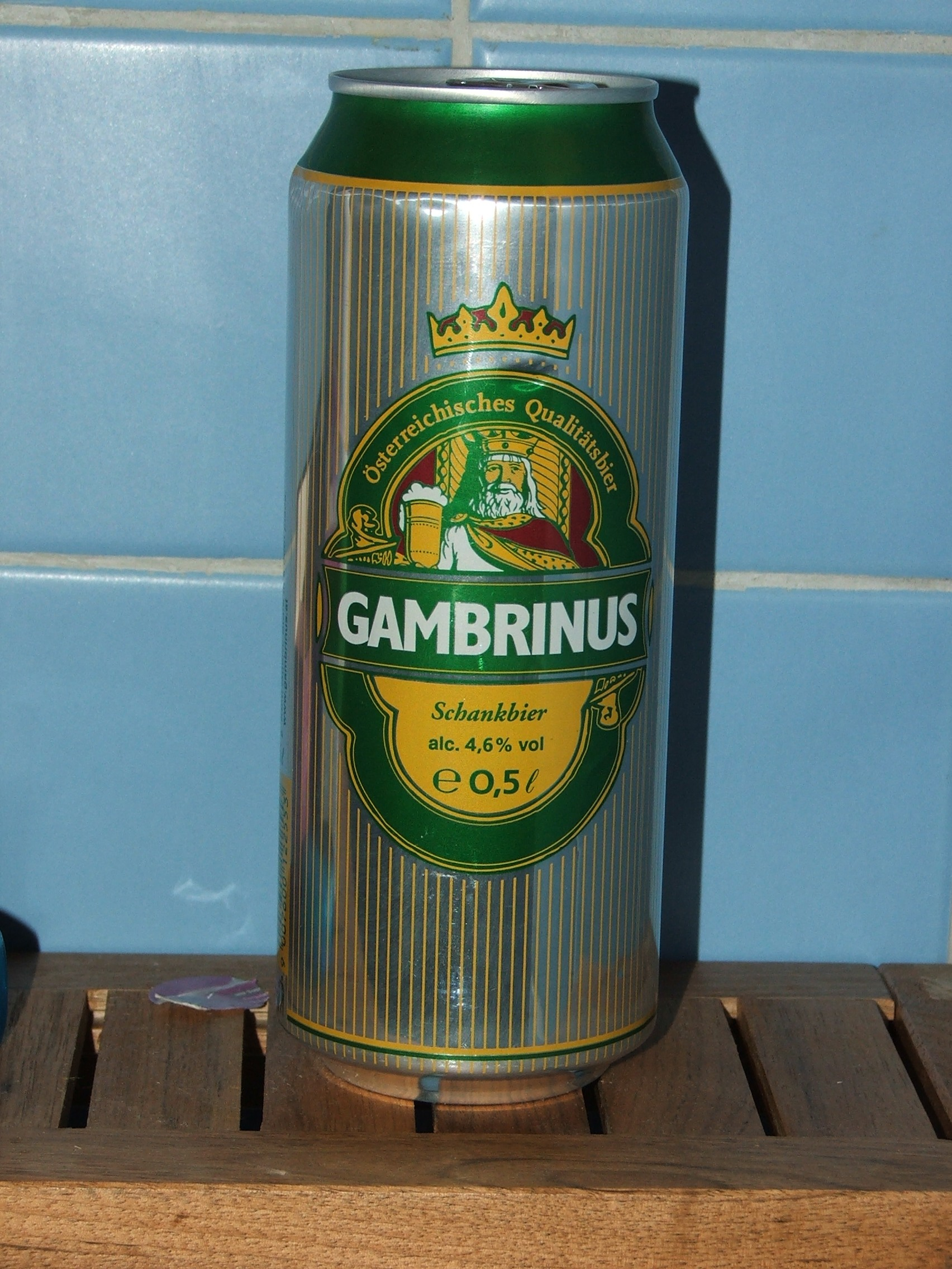 Gambrinus beer brewed in Austria.